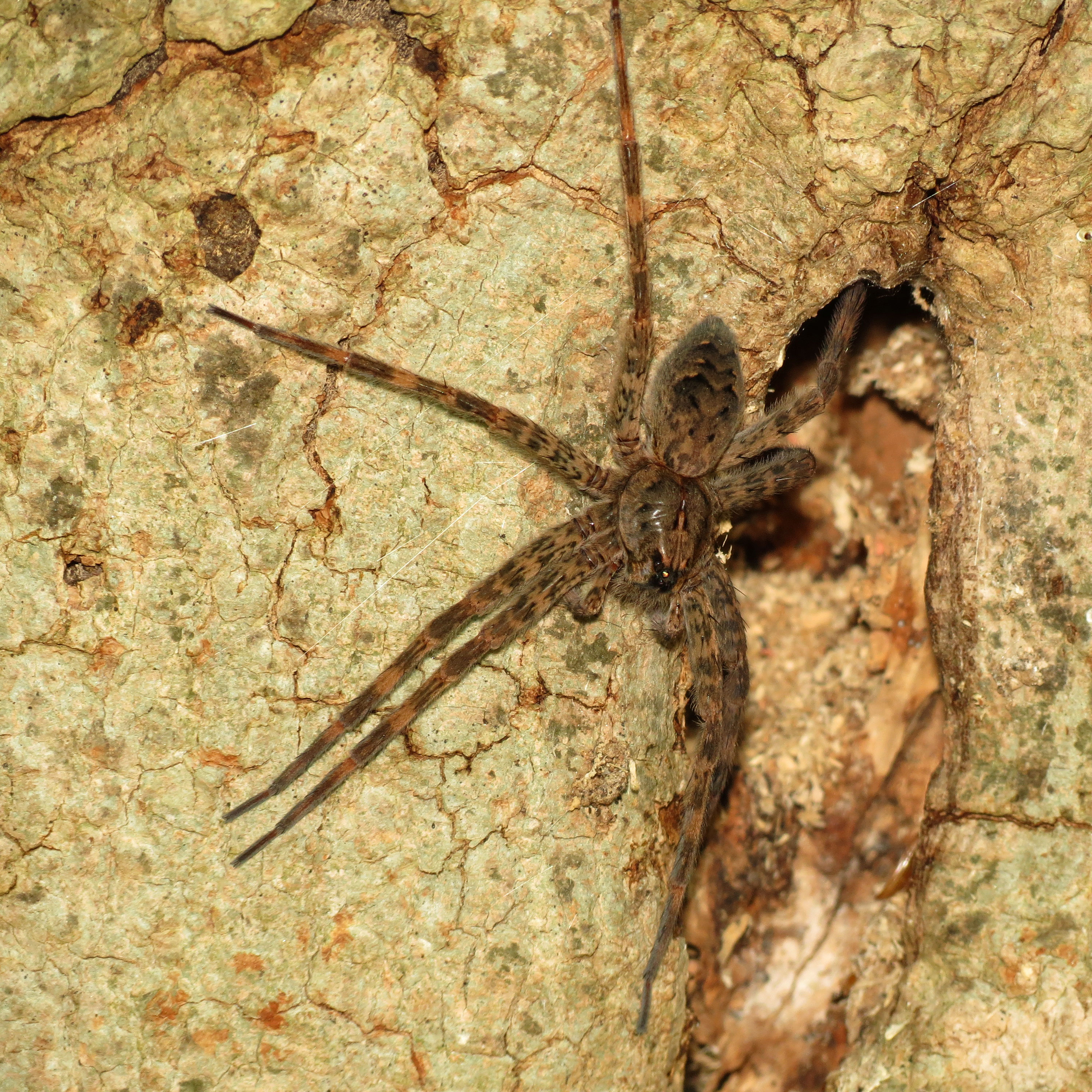 Dolomedes tenebrosus. Rock Creek Park, Washington, DC, USA. 25 May 2014.